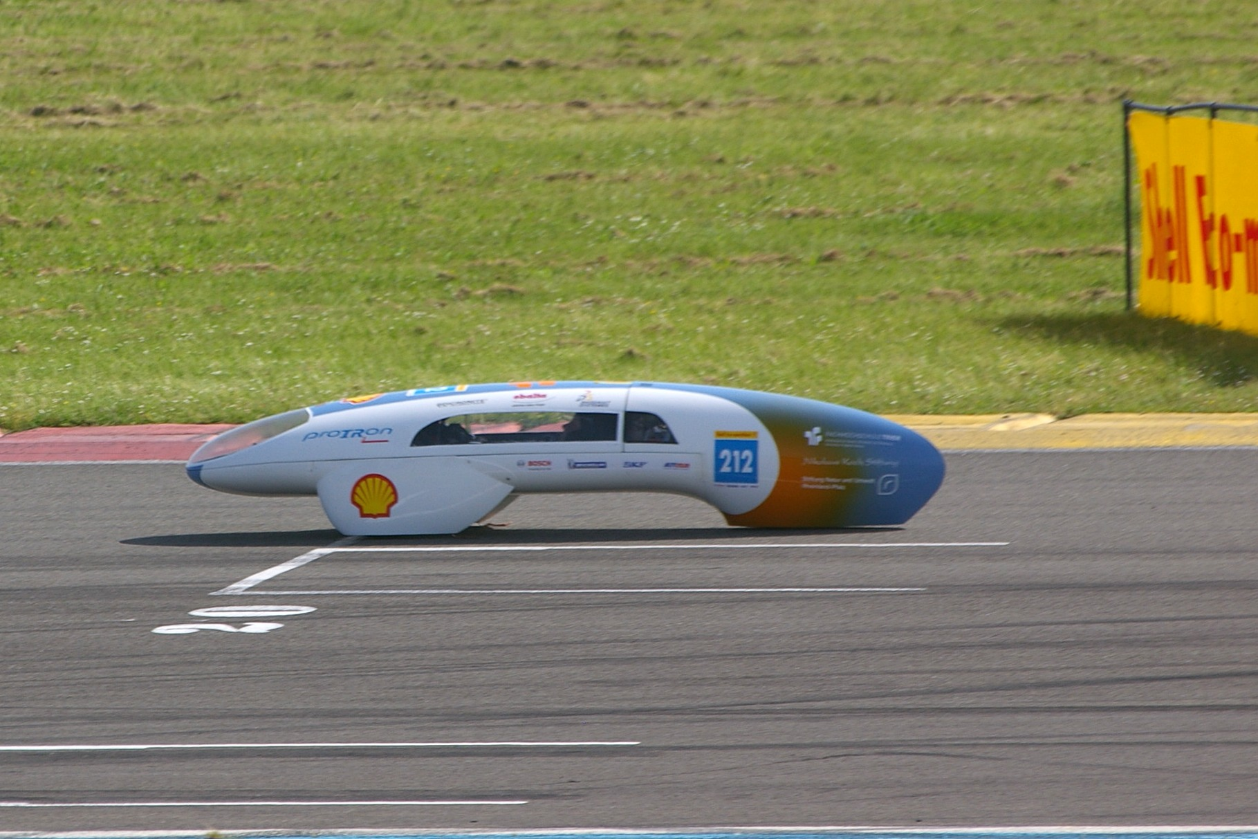 The proTRon of the Trier University of Applied Sciences (Fachhochschule Trier) in Nogaro, France.